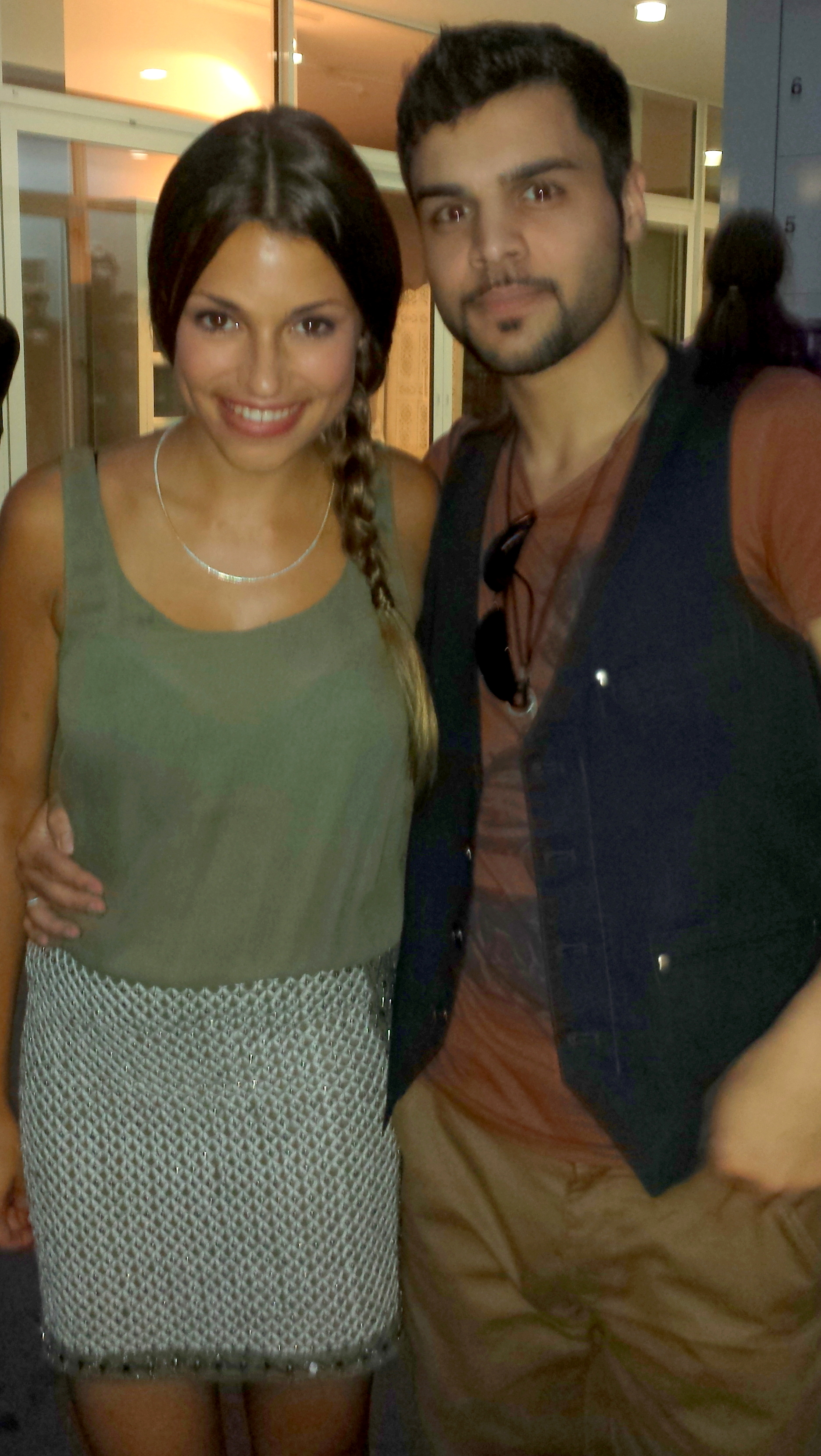 Alarm for Cobra 11 (Cologne Police Department) - Set - Yasin Islek and Anna-Julia Kapfelsperger